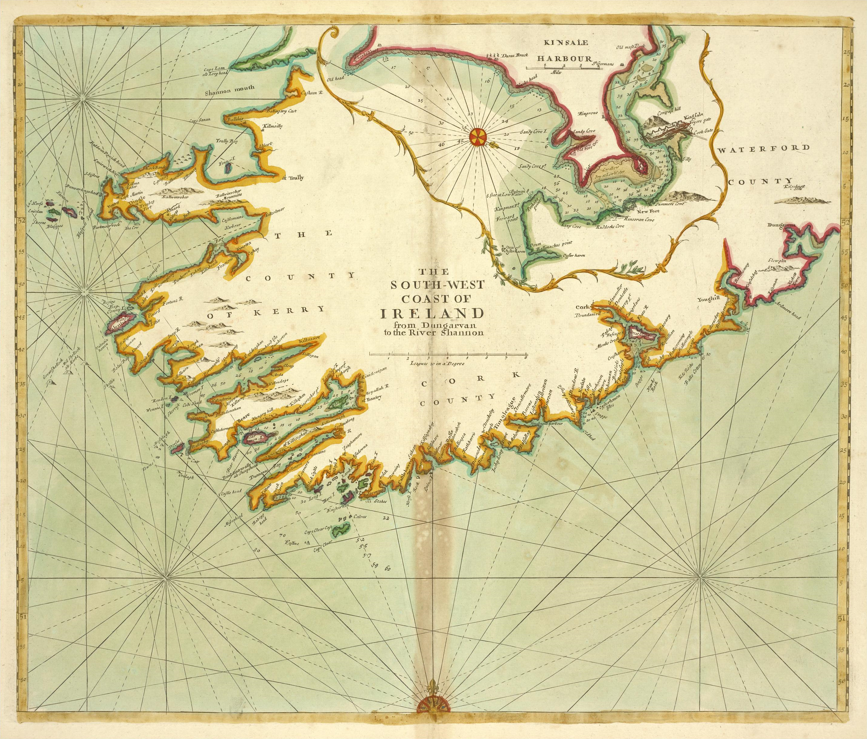 Nautical map of the coast of southwest Ireland from Dungarvan to the River Shannon by the cartographer Samuel Thornton circa 1702-1707.